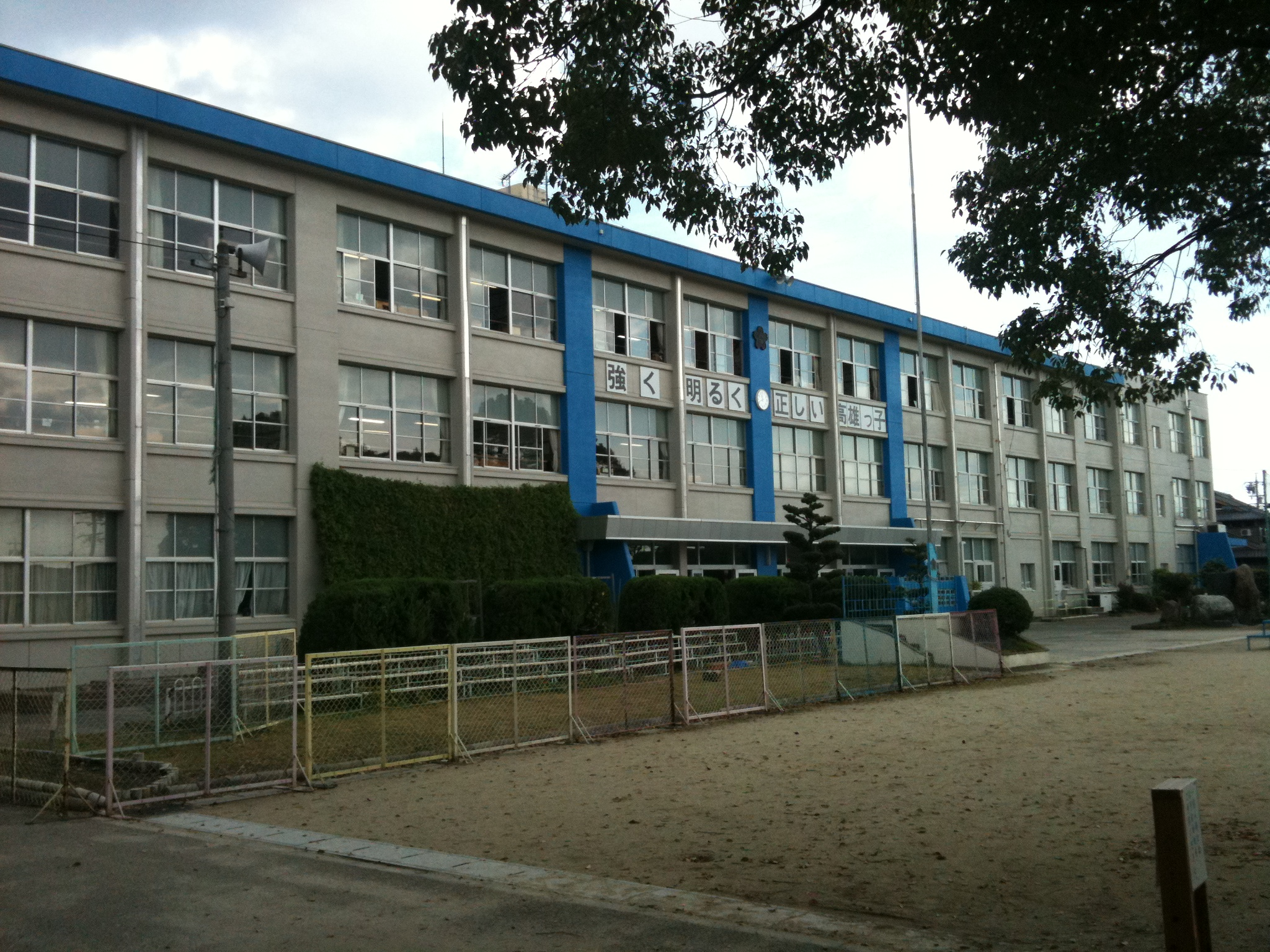 Fuso town Takao Elementary School